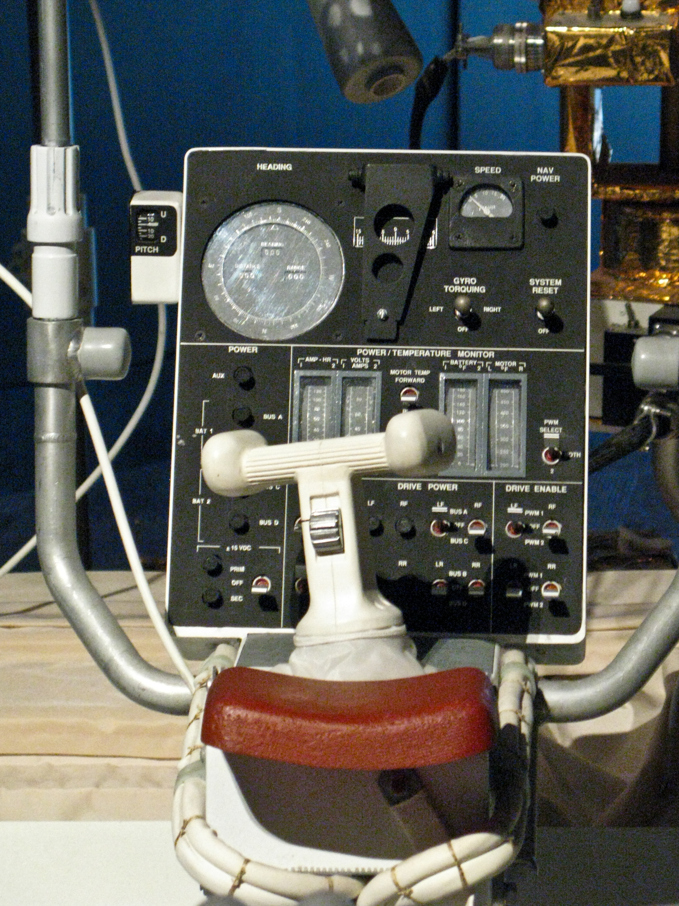 The control panel of the lunar rover used during the Apollo program. This mock-up is located at the Museum of Flight in Seattle, Washington, USA.